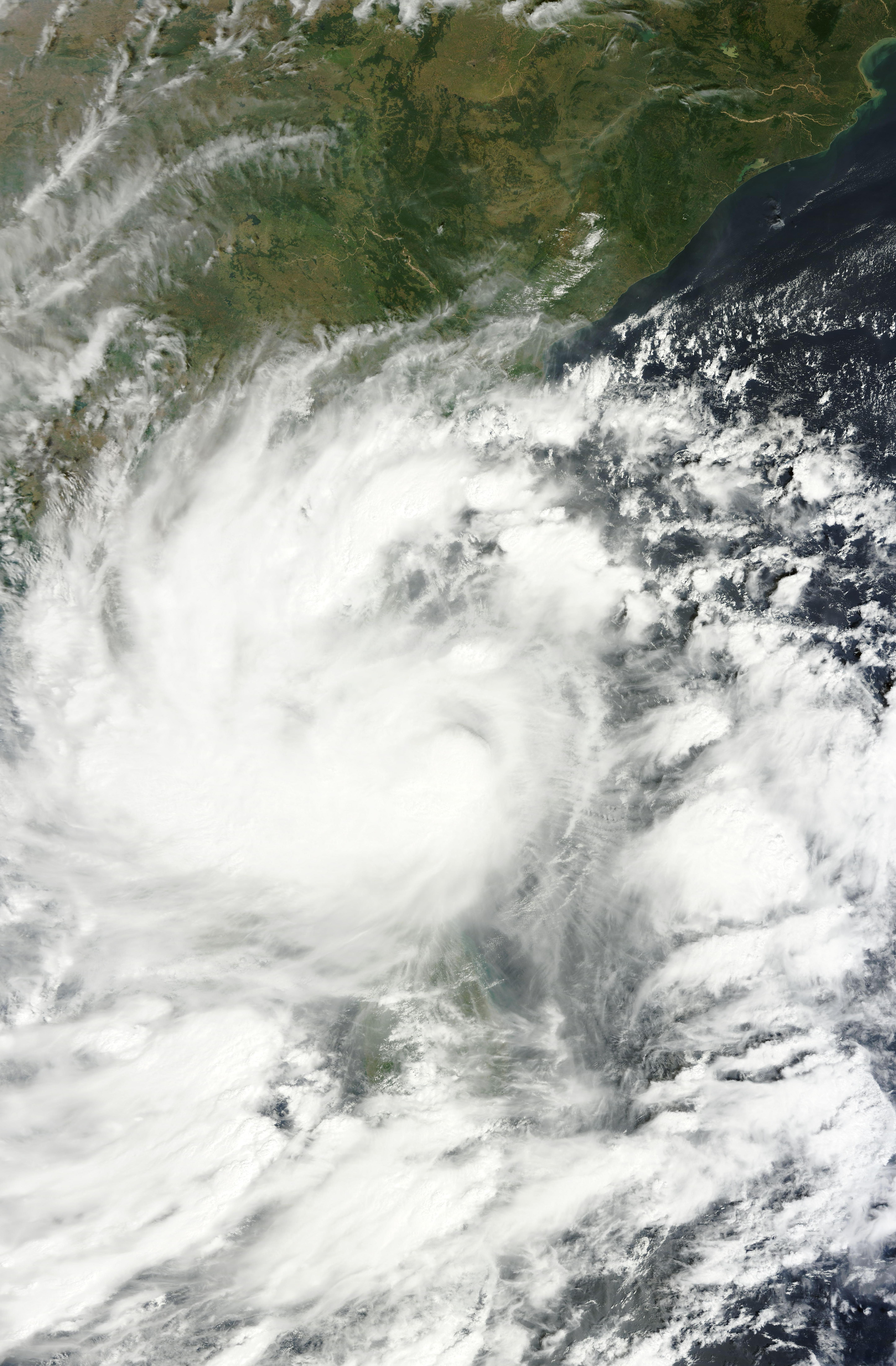 Cyclonic Storm Nilam over the Bay of Bengal, nearing the Indian coast, captured by NASA's Terra Satellite on October 31, 2012.